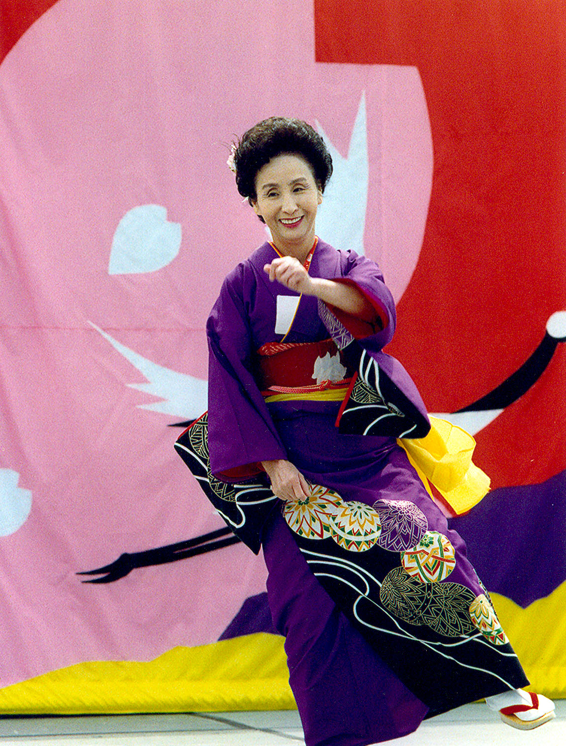 Northern California Cherry Blossom festival in San Francisco's Japantown on the Peace Plaza, Geary and Post Streets. Photograph by Nancy Wong, 1990's.